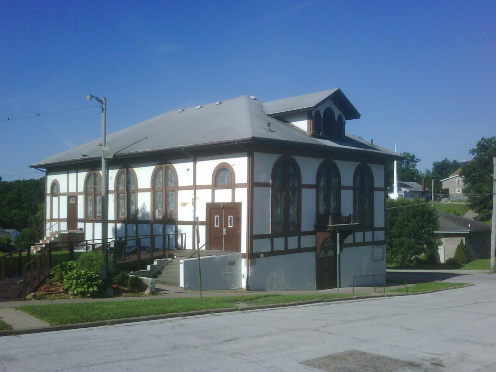 Bethel AME Church in Davenport, Iowa is listed on the National Register of Historic Places.